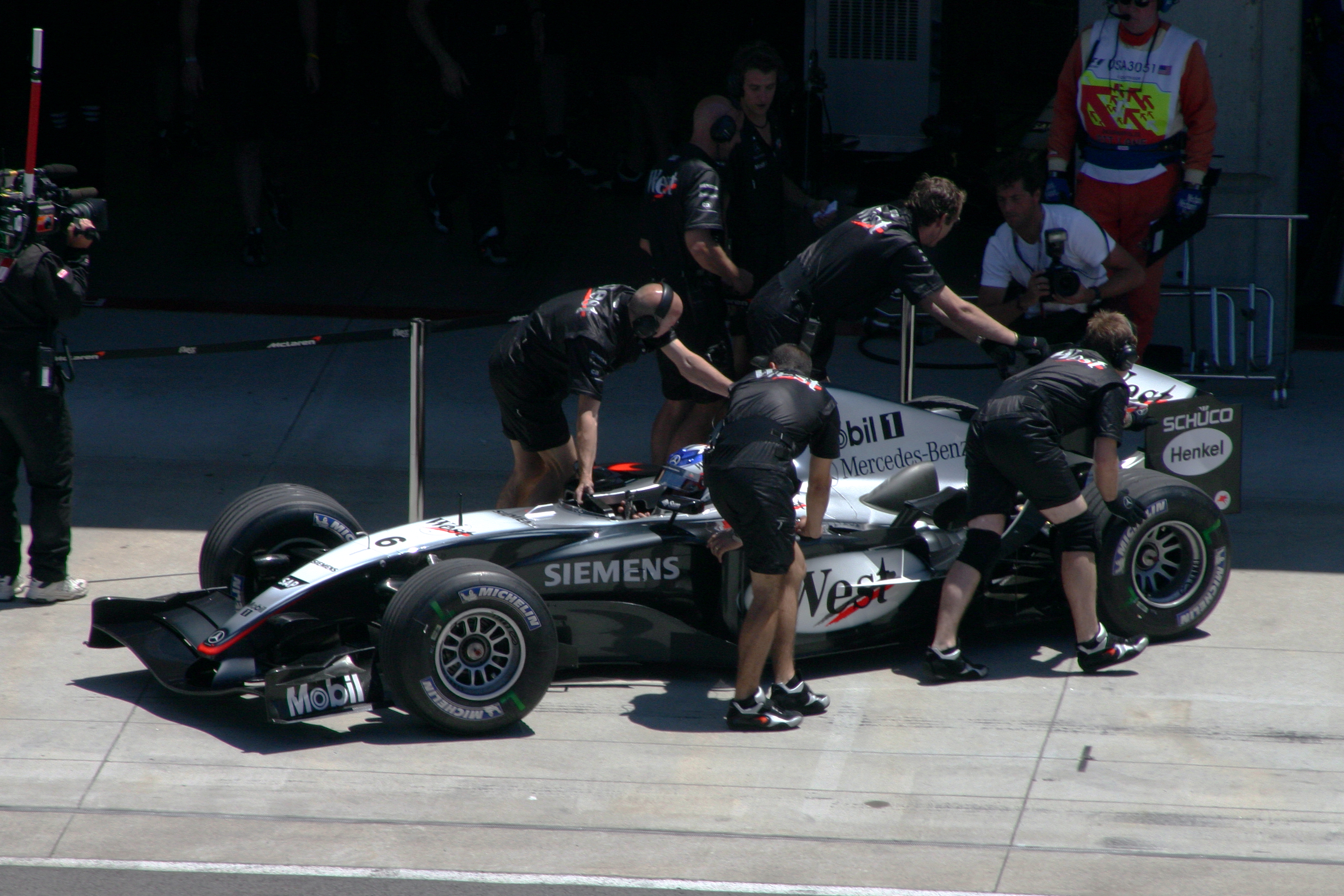 McLaren Formula One racing team, USGP, Indianapolis, 2004